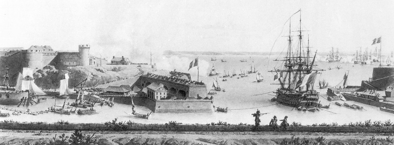 Drawing of Recouvrance harbour, seen from the city wall